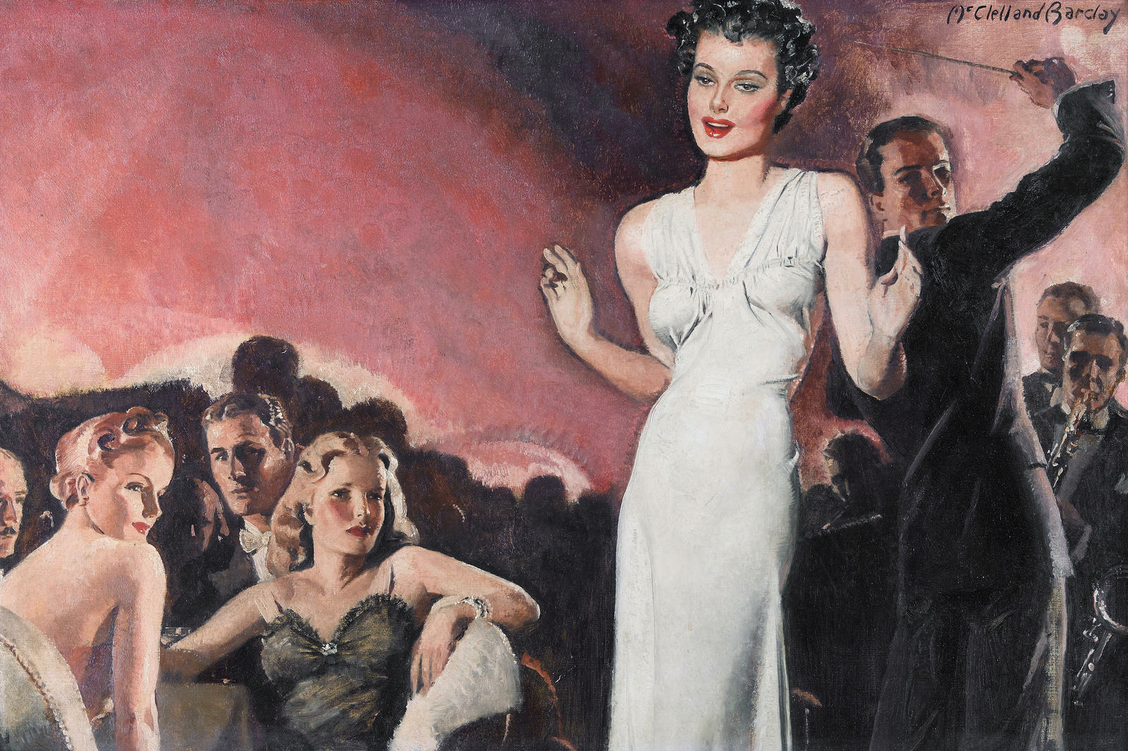 The Nightclub Singer oil on canvas 68 x 102 cm signed t.l: McClelland Barclay